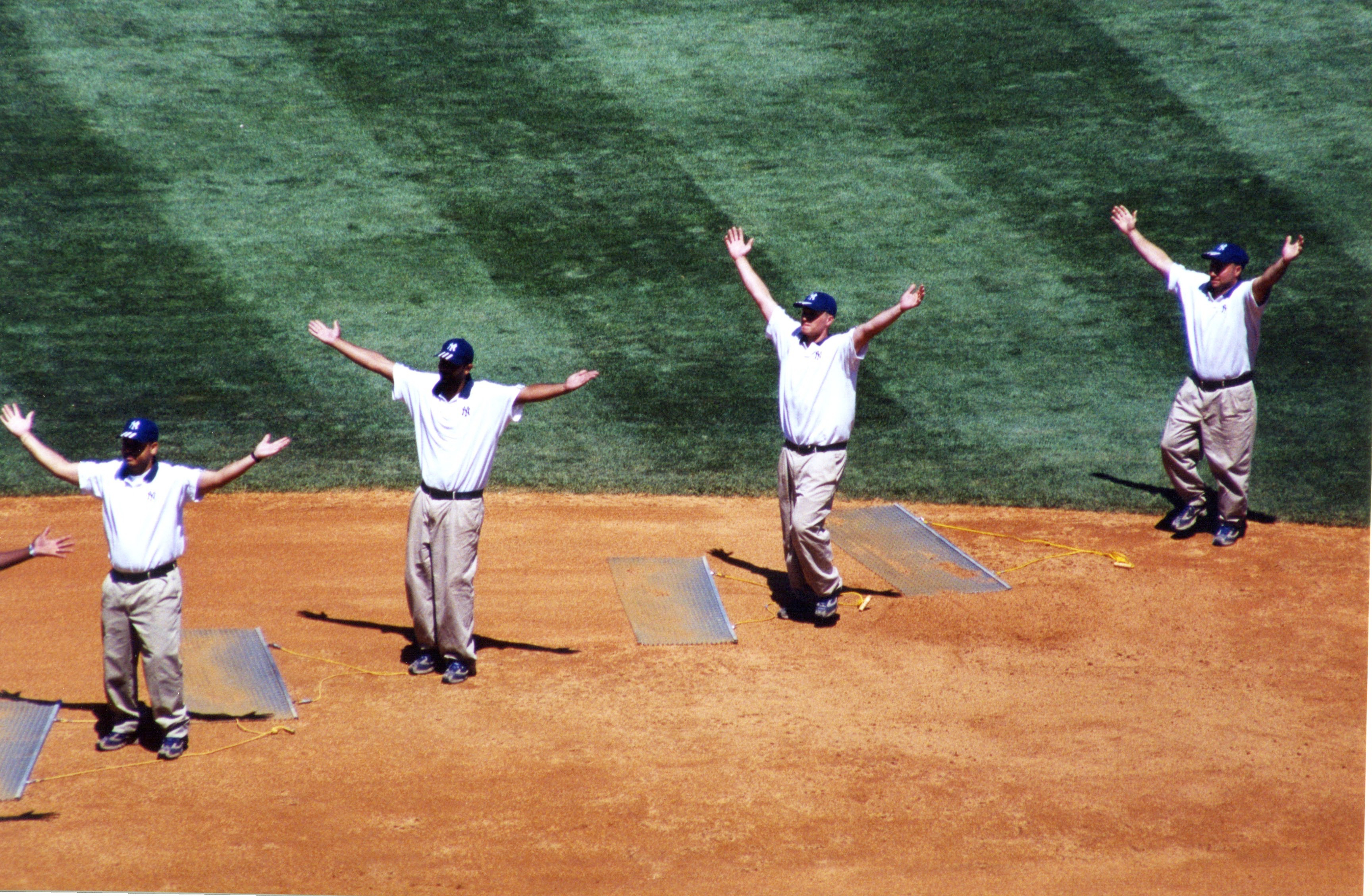 The YMCA Dance, Bronx, NY, 2000, by Rick Dikeman 00:23, 11 February 2004 . . Rdikeman . . 297×177 (13,286 bytes)